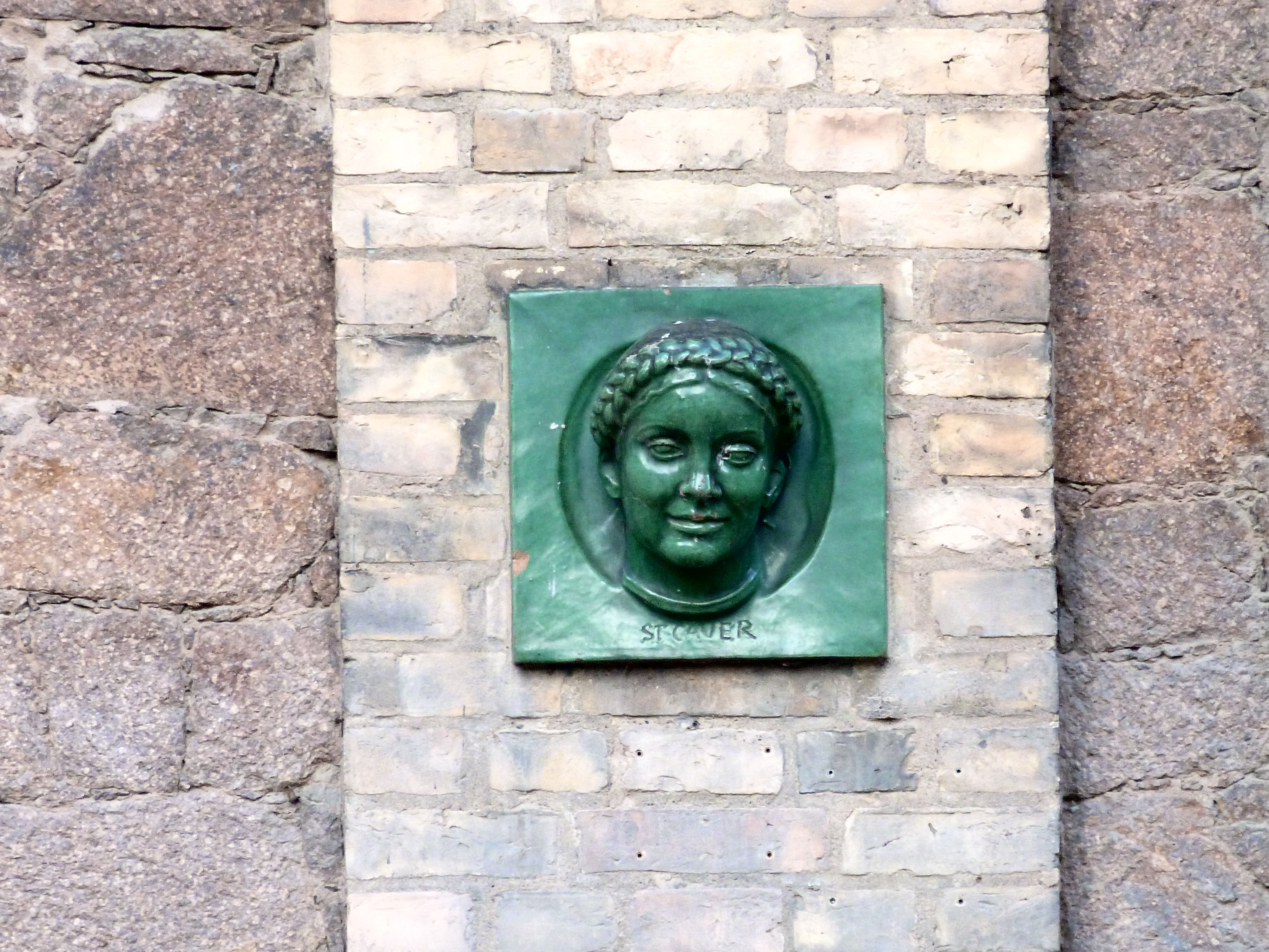 Girl head made of ceramic on the facade of the elementary school August Hermann Francke, Halle (Saale), sculptor Stanislaus Cauer (1867-1943)